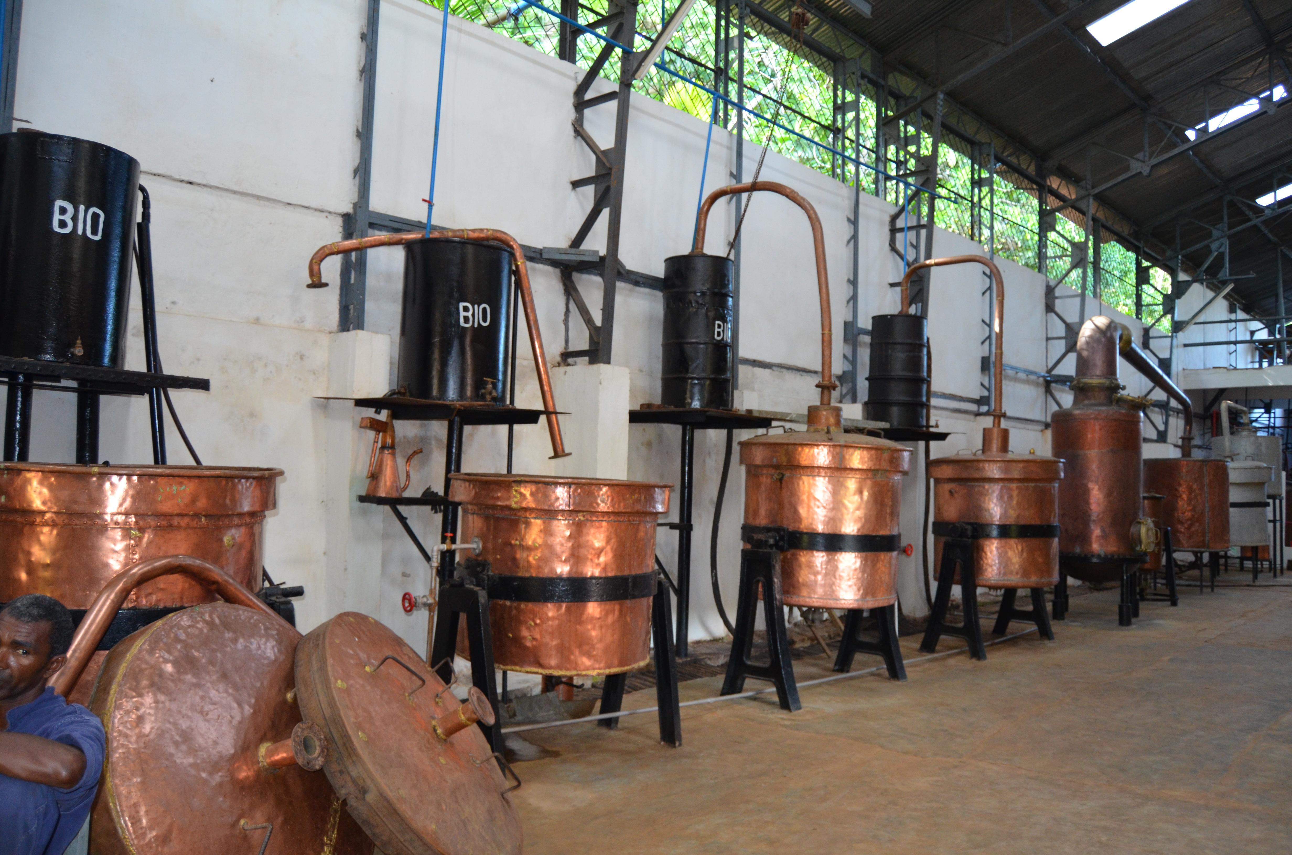 Stills used to produce ylang-ylang essential oil in Nosy Be.